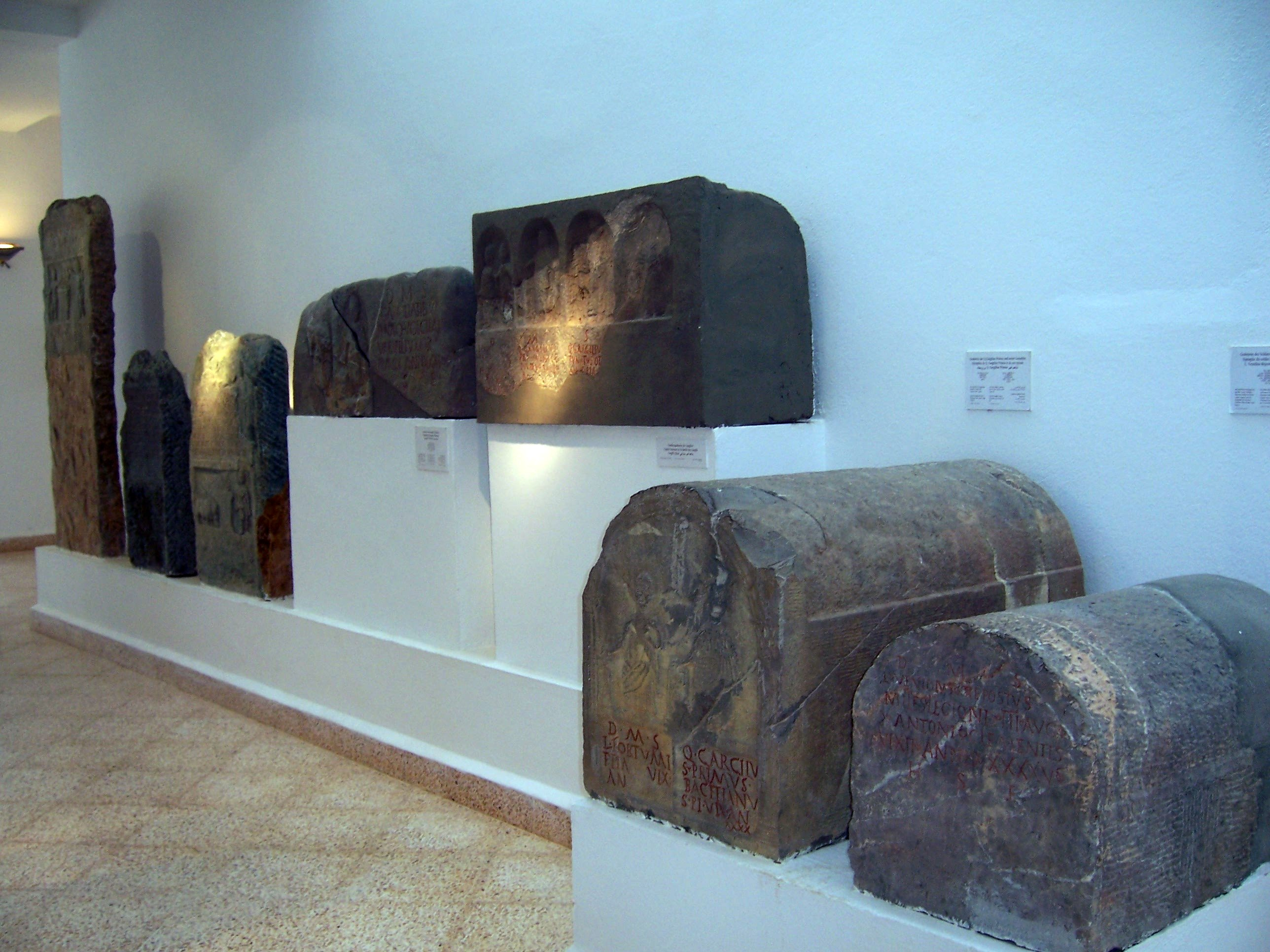 Funerar steles exposed in the Archaeological Museum of Chemtou